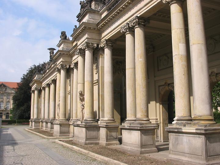 Heinrich-von-Kleist-Park in Berlin-Schöneberg. Kings colonnade, built in 1780, displaced from Königsbrücke (german for Kingsbridge) at Alexanderplatz.